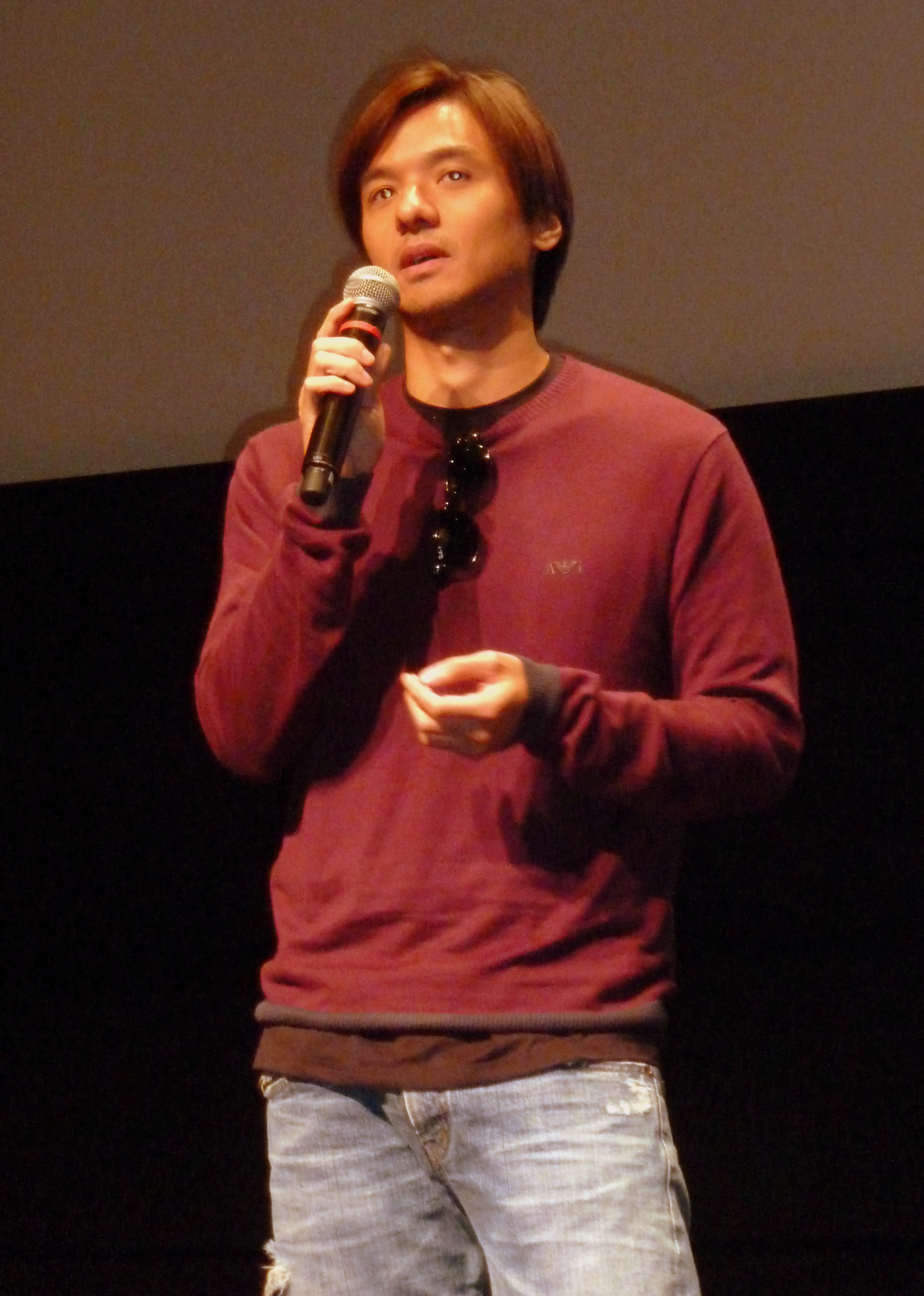 Stephen Fung Q&A at a screening for Tai Chi Zero, Toronto Film Festival 2012